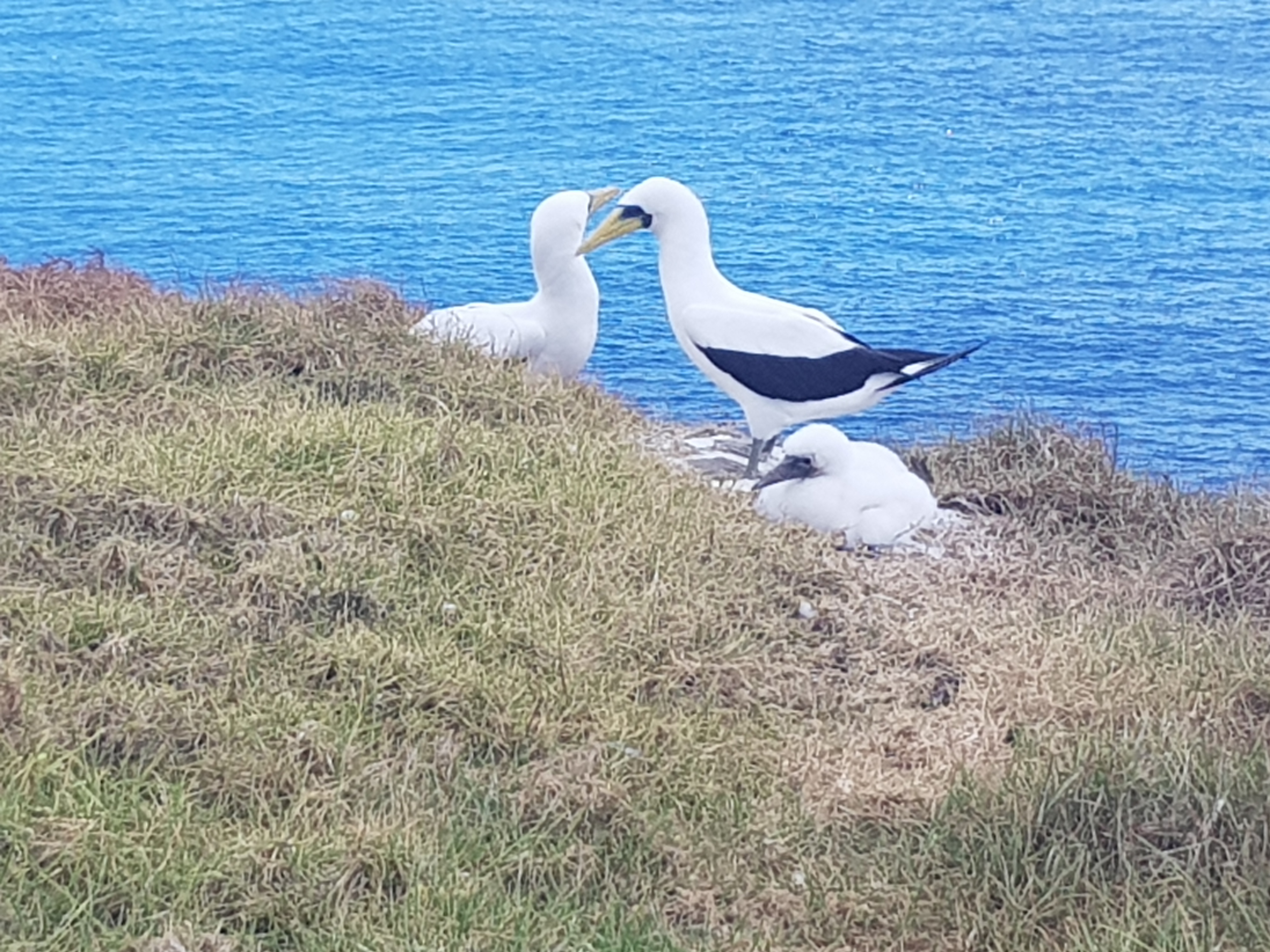 Masked booby pair greeting and their chick. Norfolk Island